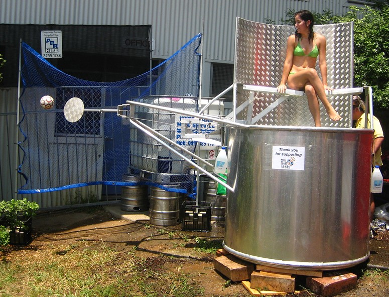 description of article